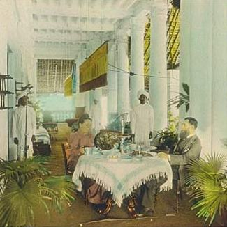 A wealthy Indian merchant's home; man and woman at dining table served by turbanned natives. (Jackson's own caption) Magic lantern image from British India